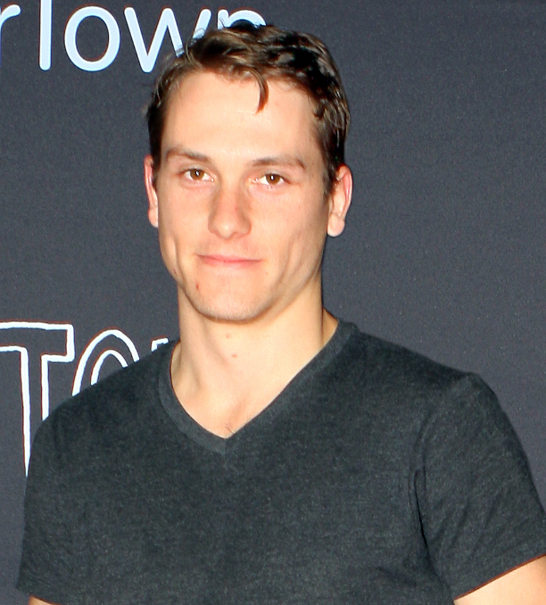 Paper Towns Australian Premiere